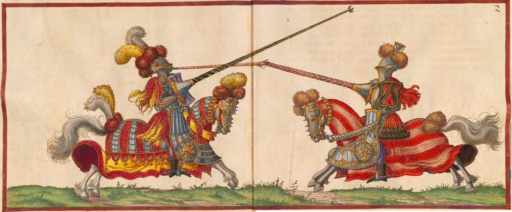 "high" jousting in Paulus Hector Mair's compendium. Mair shows various styles of joust practiced during the 16th century. This is the first style presented, identified as the "high" or traditional style, known as jousting in dem alten hohen Teutschen zeug. Other jousting styles presented by Mair are: (to be reviewed) das geschifft Tratschen Rennen den Bund im stehlin geliger, joust in steel armour in tibialibus ferreis "with iron shin-protectors" Germanorum tyrocinium "German joust" den geschifften Küriss das rennen mit dem wulst, joust without armour but with large shields covering the full front of the body ain geschifften feldküriss or "Italian joust" das geschifft scheuben rennen in Armetin der schwaiff der bund das pfannen rennen